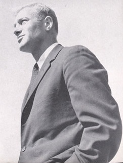 Nebraska Cornhuskers football coach Pete Elliott